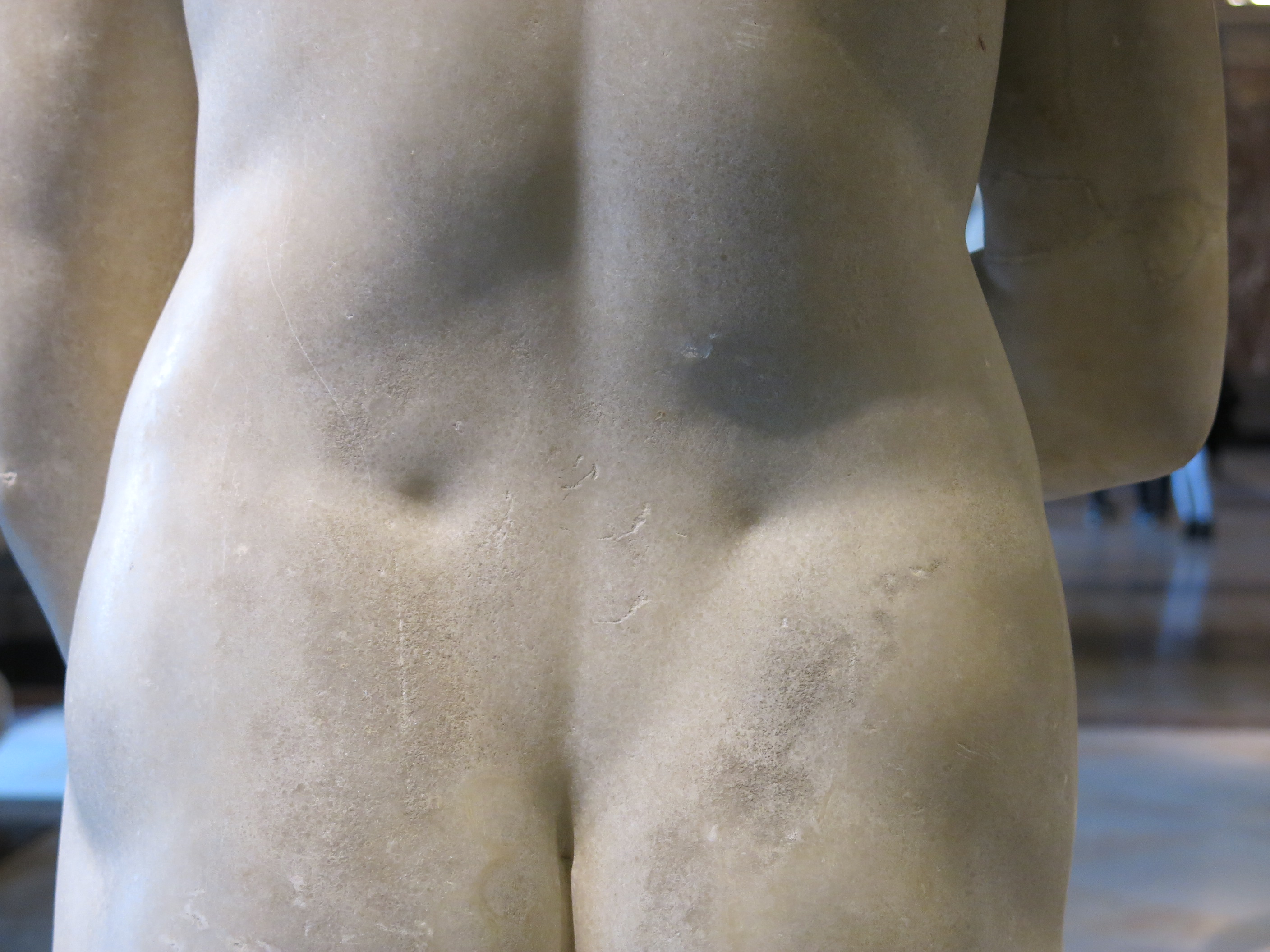 Dimples in the back of the Capitoline Aphrodite. Louvre museum (Paris, France).